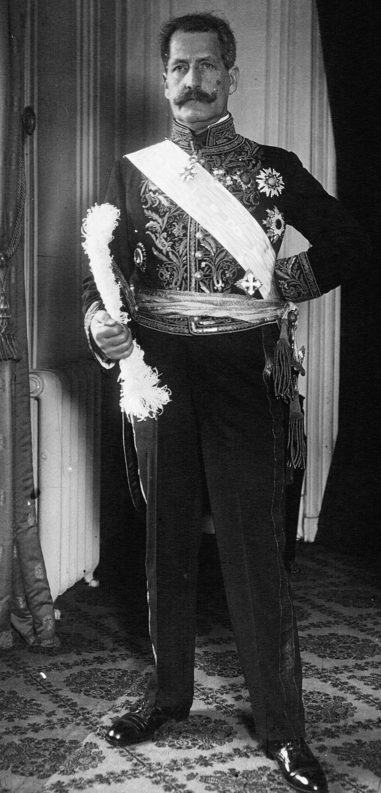 French diplomat Philippe Berthelot (1866-1934).